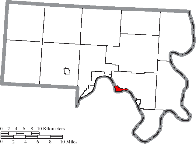 Map of the municipal and township boundaries of Meigs County, Ohio, United States, as of the 2000 census, with the location of the village of Syracuse highlighted. Township borders are shown only in unincorporated areas in order to differentiate incorporated and unincorporated areas more clearly.